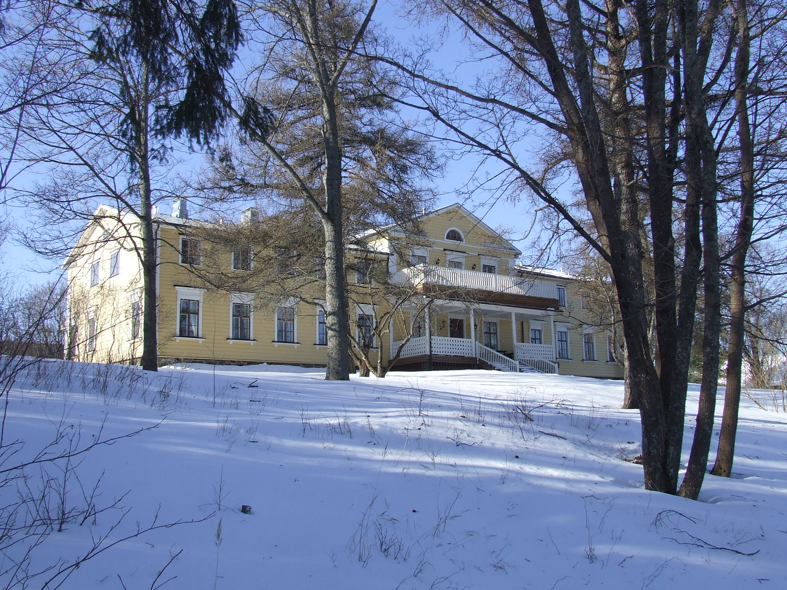 Poitsila Manor in Hamina, Finland.